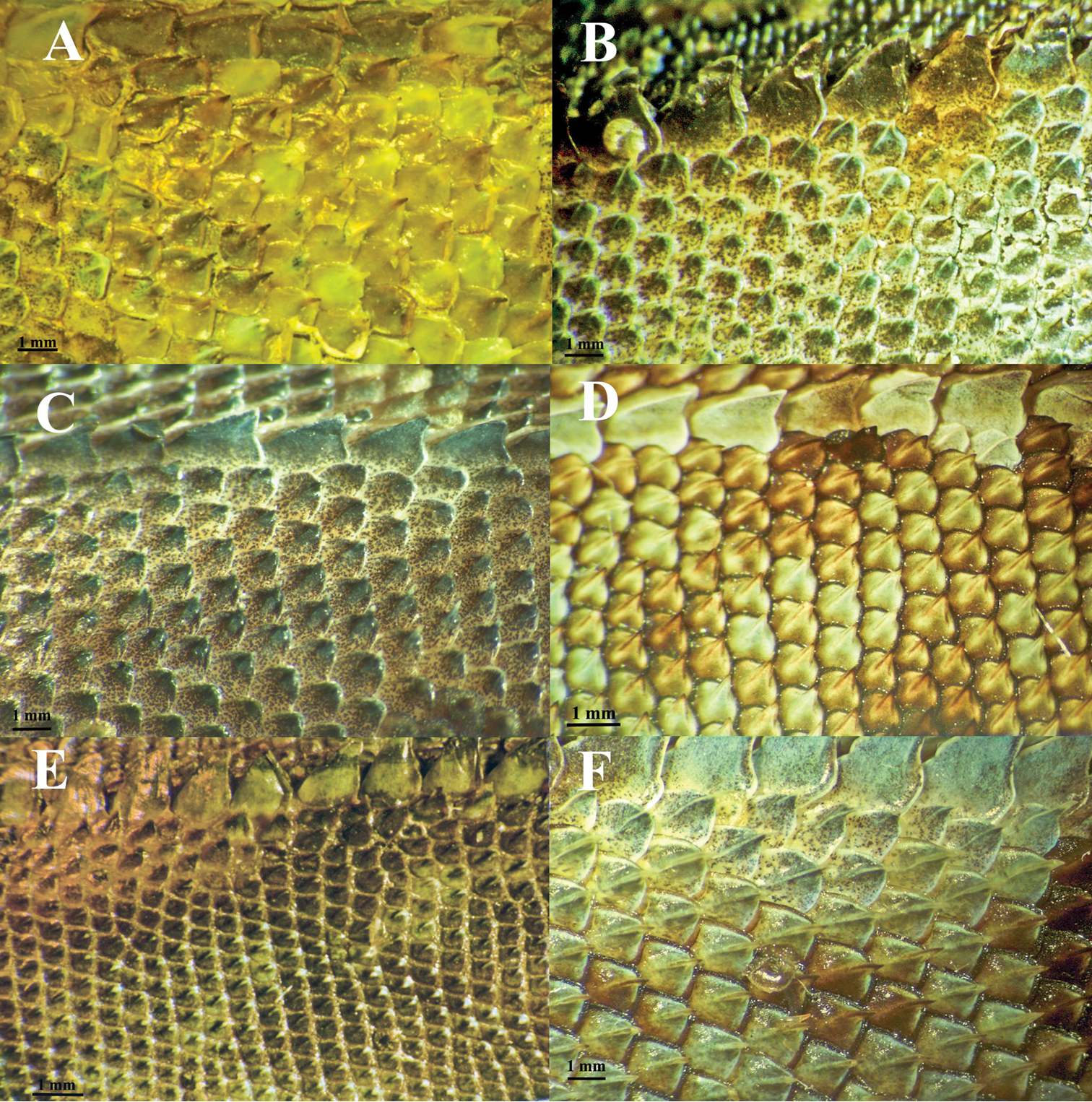 Comparative morphology of dorsal scales at mid-body near the dorsal crest of adult individuals of lizards of the Plica plica group (Tropiduridae). Anterior is to the left in all images. The scale bar shown in each image is one millimeter. A Plica plica, FMNH 128950, B Plica caribeana, FMNH 49838, C Plica kathleenae, FMNH 30931, D Plica medemi, FMNH 165207, E Plica rayi, FMNH 177925, F Plica cf. plica from Amazonas, Venezuela, MCZ 101841.